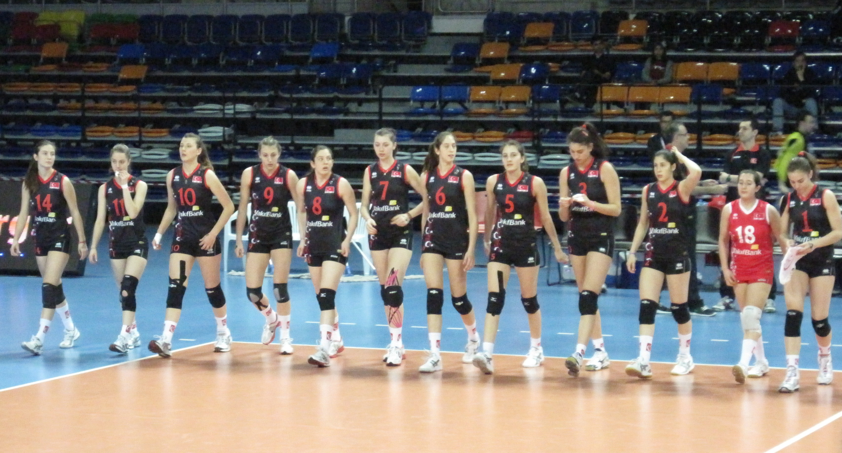 2011 European champions Turkey women's youth national volleyball team. 14-Ecem Alıcı, 11-Kübra Kegan, 10-Ece Hocaoğlu, 9-Aslı Kalaç, 8-Buket Yılmaz, 7-Ceyda Aktaş, 6-Ceylan Arısan, 5-Şeyma Ercan, 3-Kübra Akman, 2-Çağla Akın, 18-Dilara Bağcı, 1-Damla Çakıroğlu.